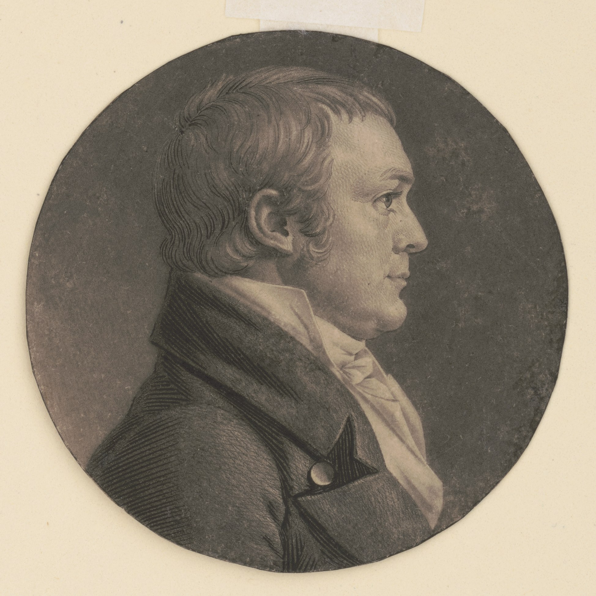 Title: Thomas Griffin, head-and-shoulders portrait, right profile Abstract/medium: 1 print : engraving.